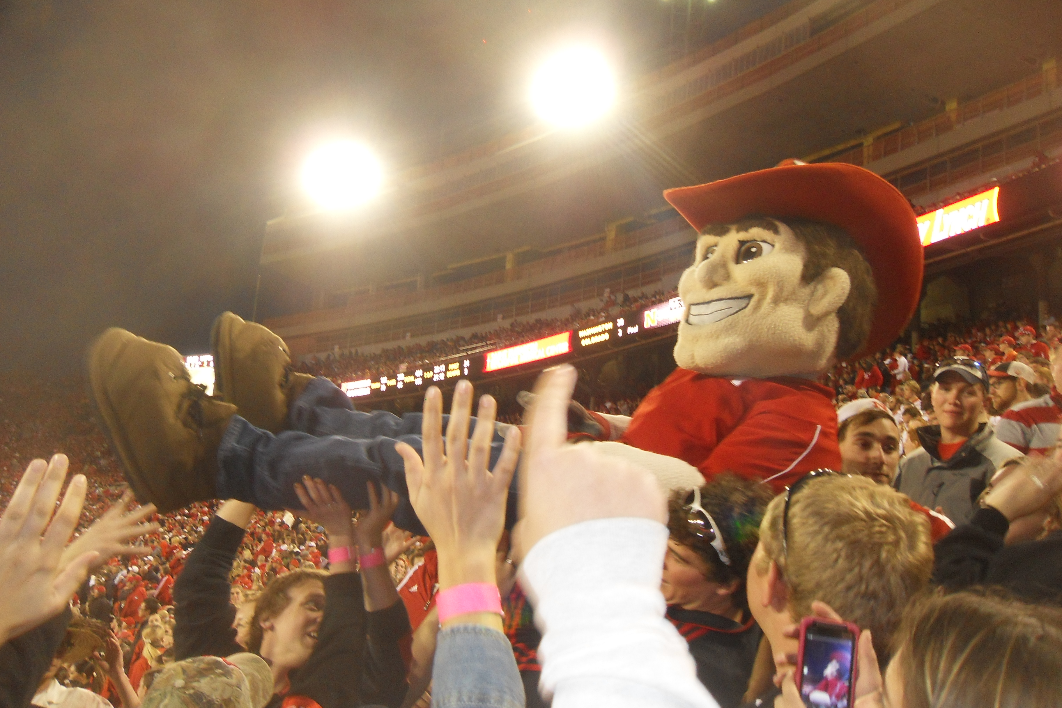 The Nebraska Cornhuskers mascot, Herbie Husker, crowd surfing in the student section during a football game.